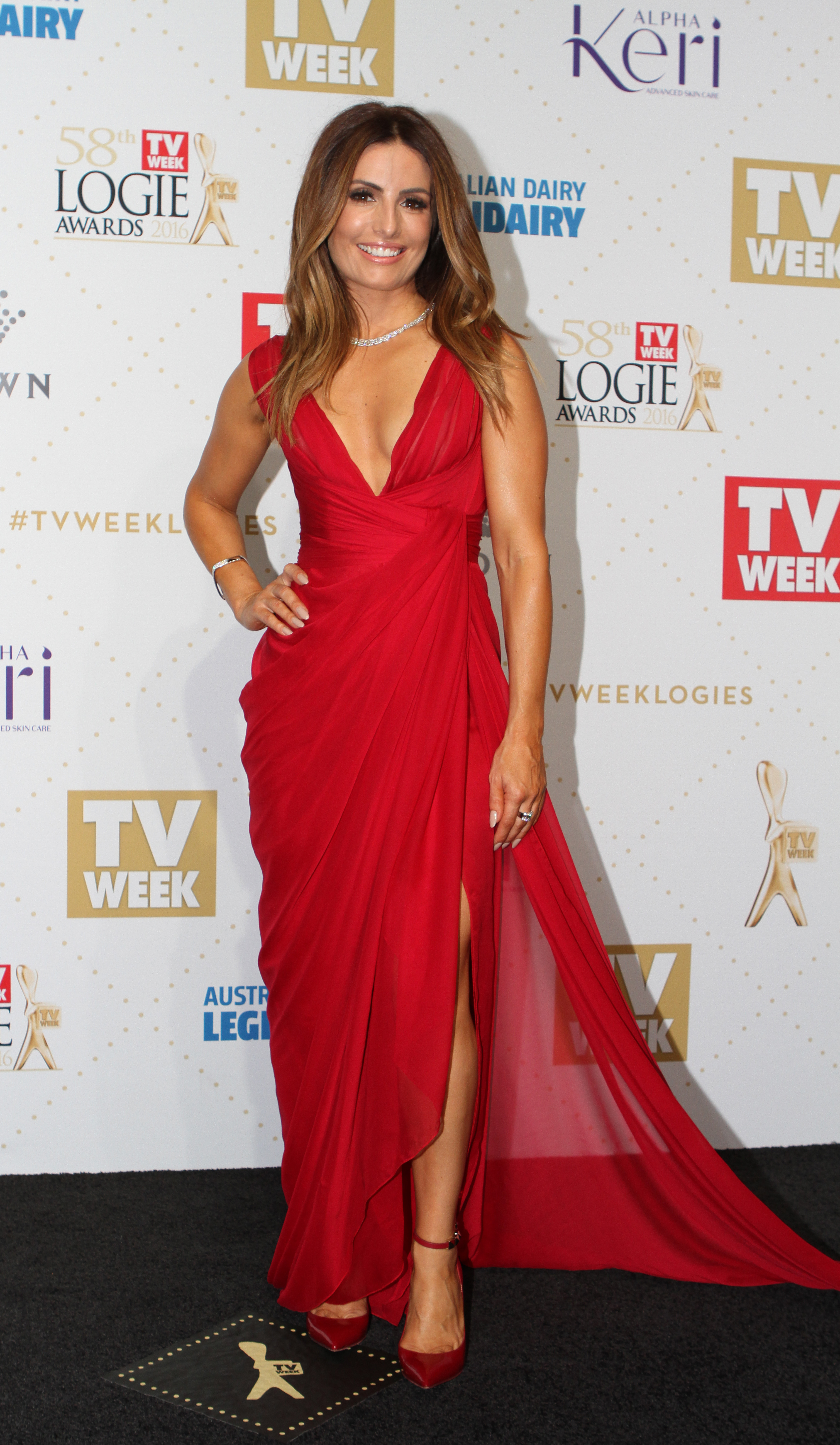 Ada Nicodemou arrives at the 2016 TV Week Logie Awards